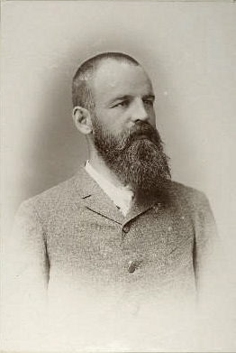 Charles Robert Cattley (1817–1855) diplomatist and intelligence officer in the Crimea